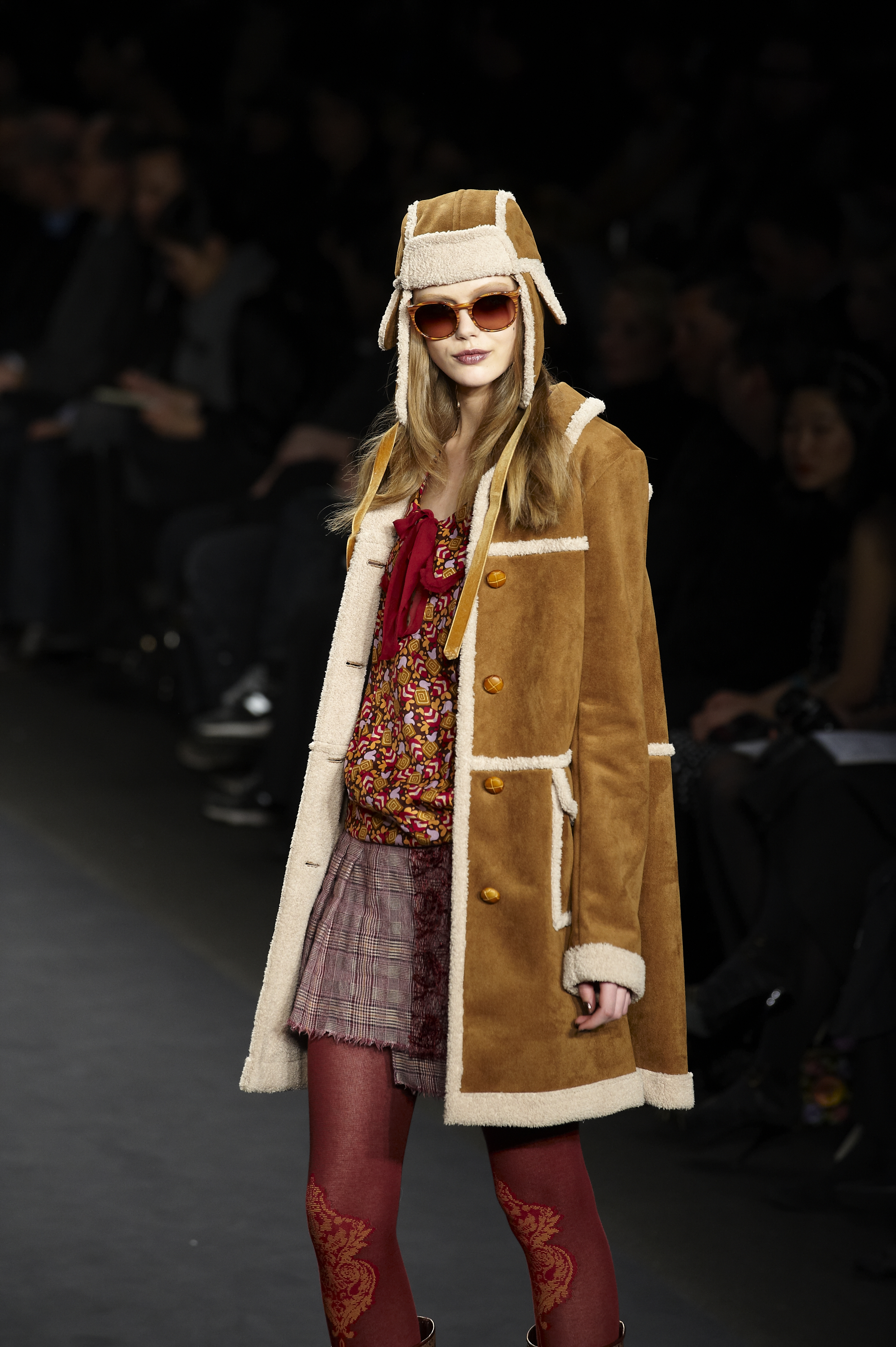 A model walks the runway at the Anna Sui Fall/Winter 2010 show at New York Fashion Week, February 2010.